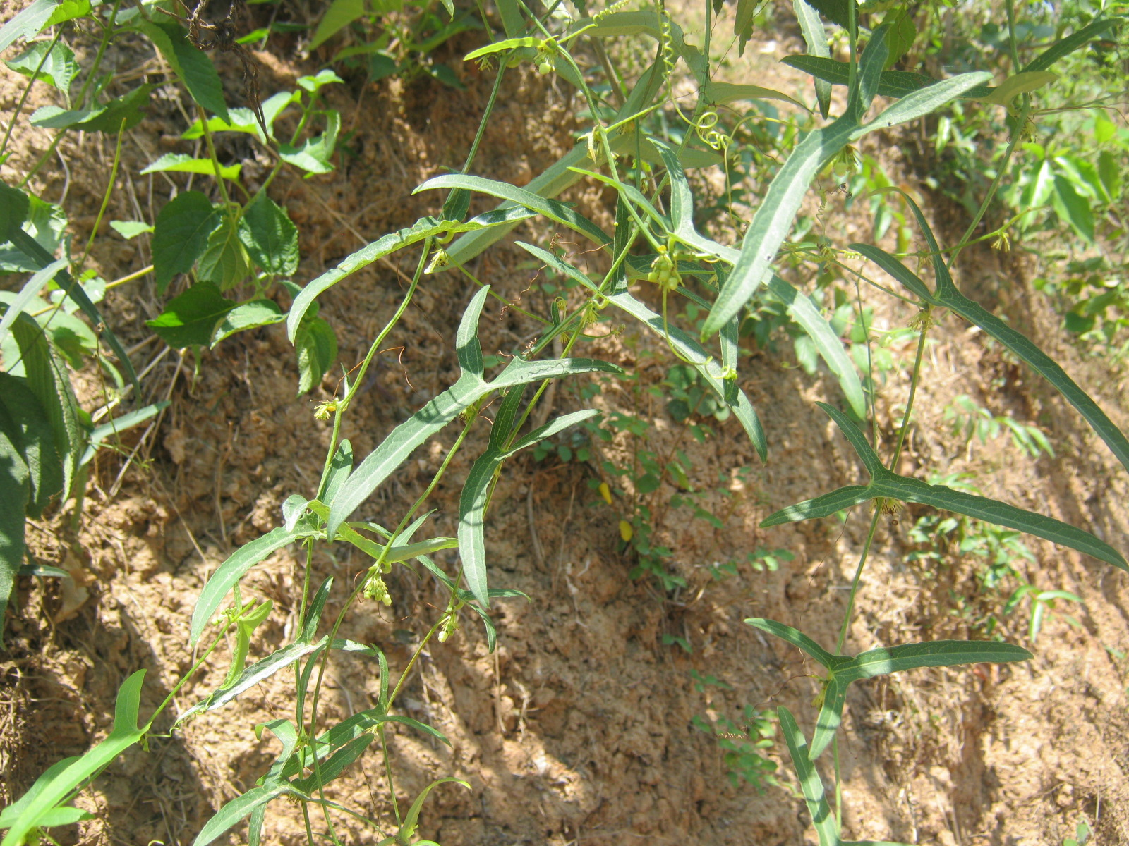 A herb with edible fruit.